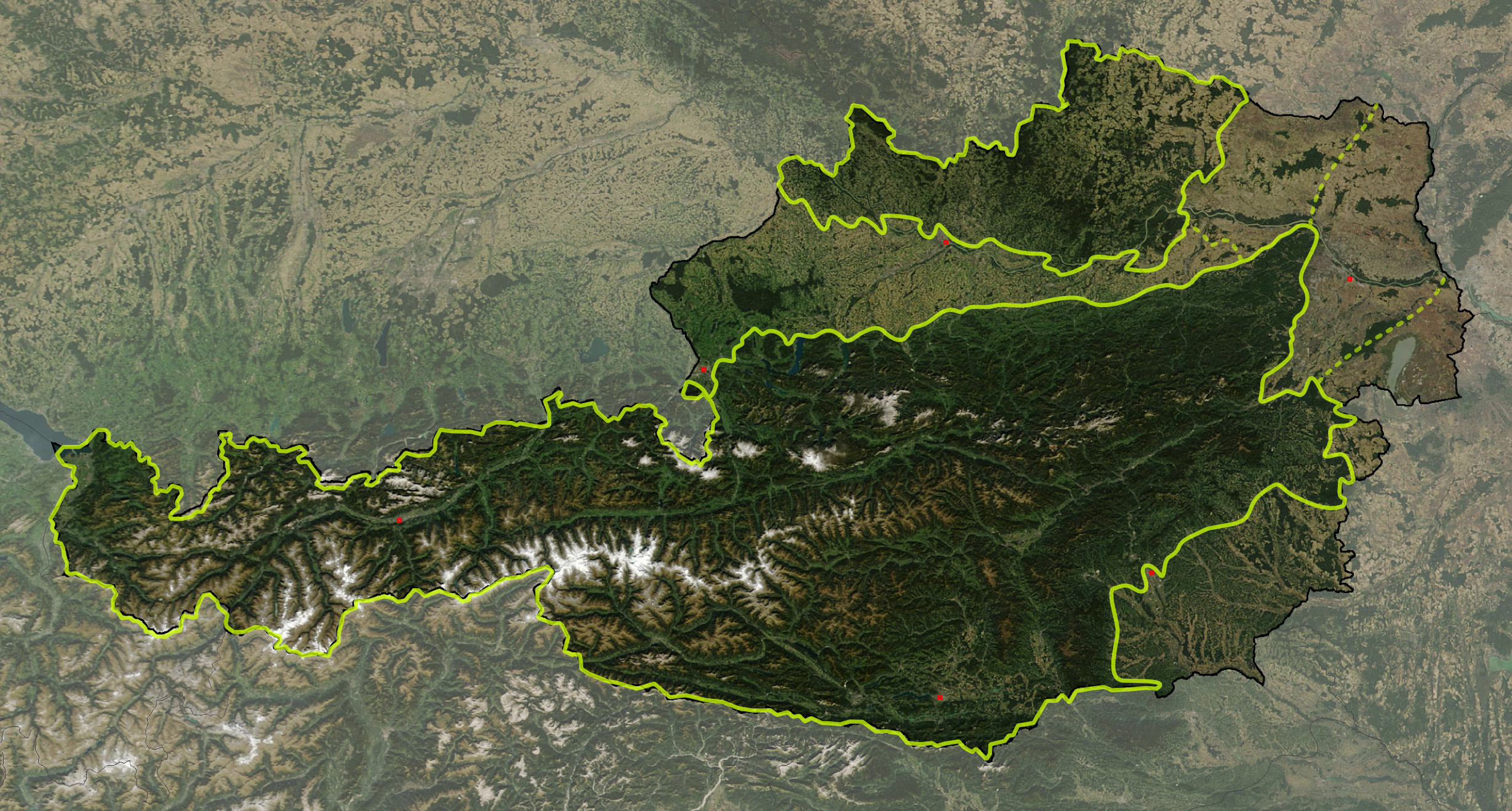 Satellite image of Austria with greater landscapes: Austrian Alps, Alpine Forelands and Rim Basins, Granite and Gneiss Highlands